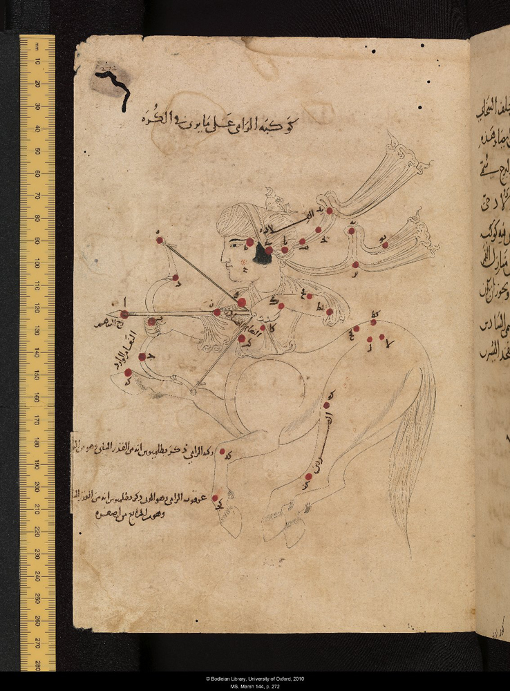 Sagittarius (al-rami), the archer. (Signs of the zodiac). From Al-Sufi's Book of the Fixed Stars (Kitāb Ṣuwar al-kawākib (al-thābitah)), a revision of Ptolemy's Almagest with Arabic star names and drawings of the constellations. Dated 1009-10 (A.H. 400). Shelfmark: MS. Marsh 144.